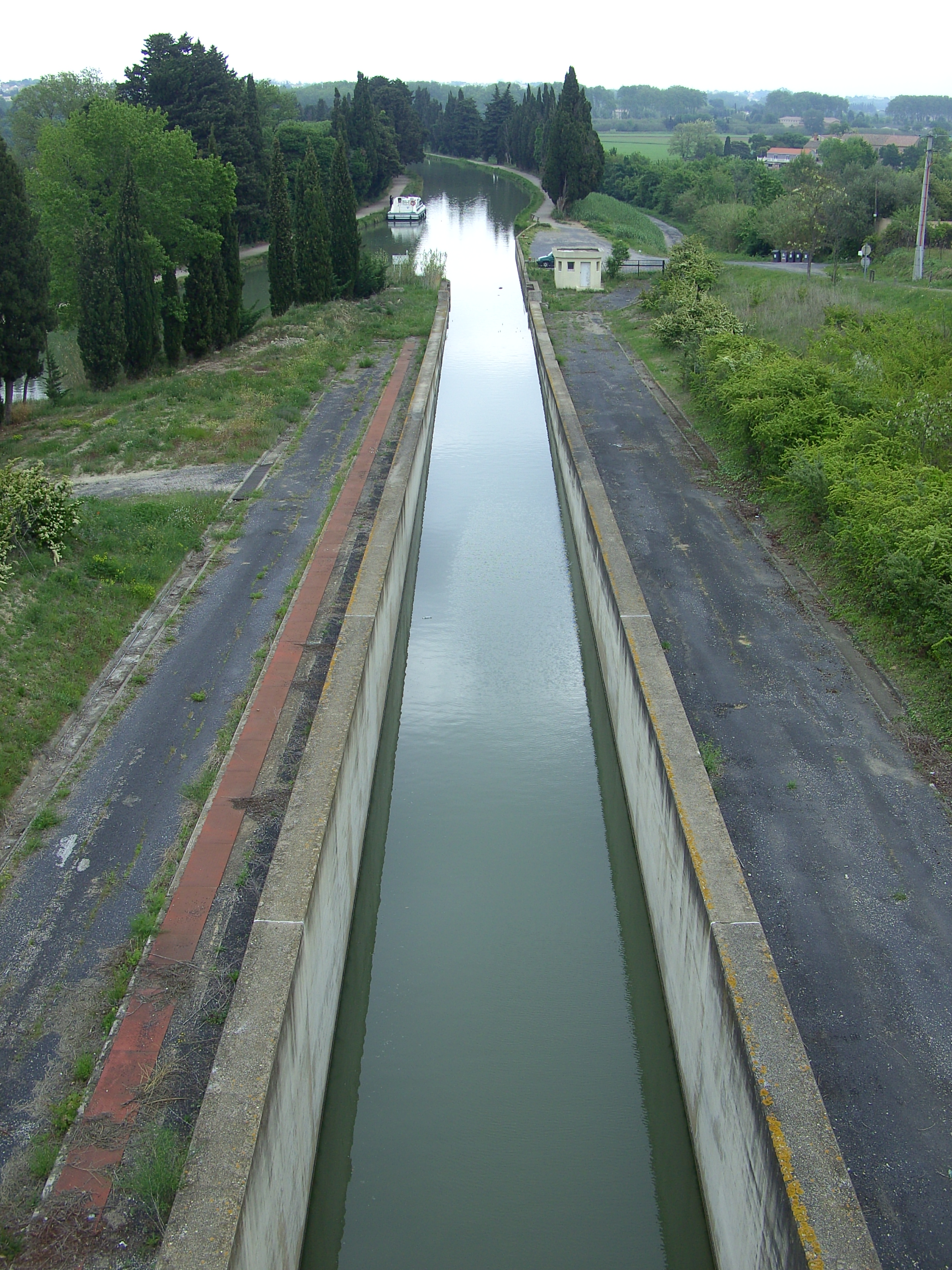 Pente d'eau basse